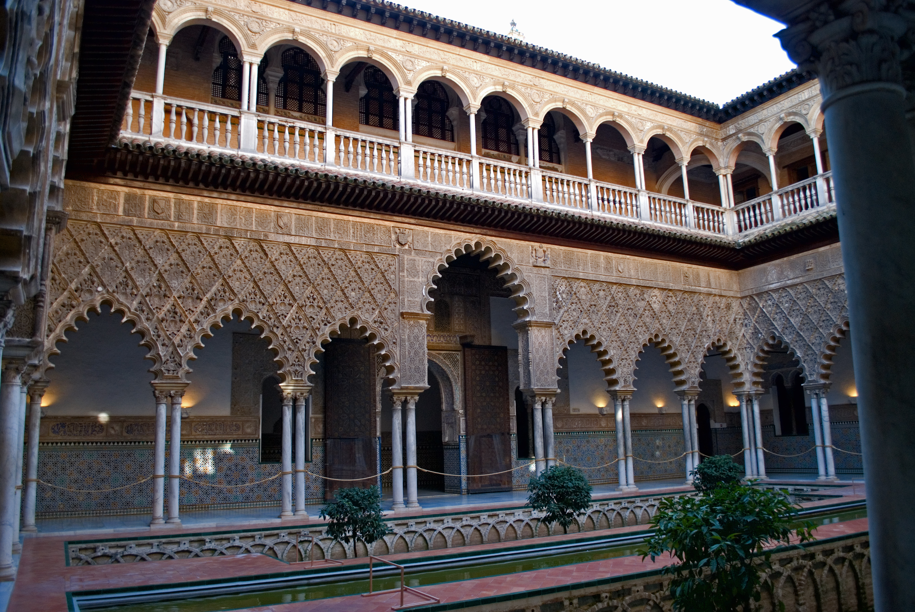 The Courtyard of the Maidens, Alcázar of Seville